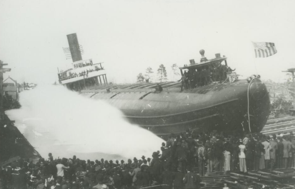 Launching the whaleback steamer Samuel Mather